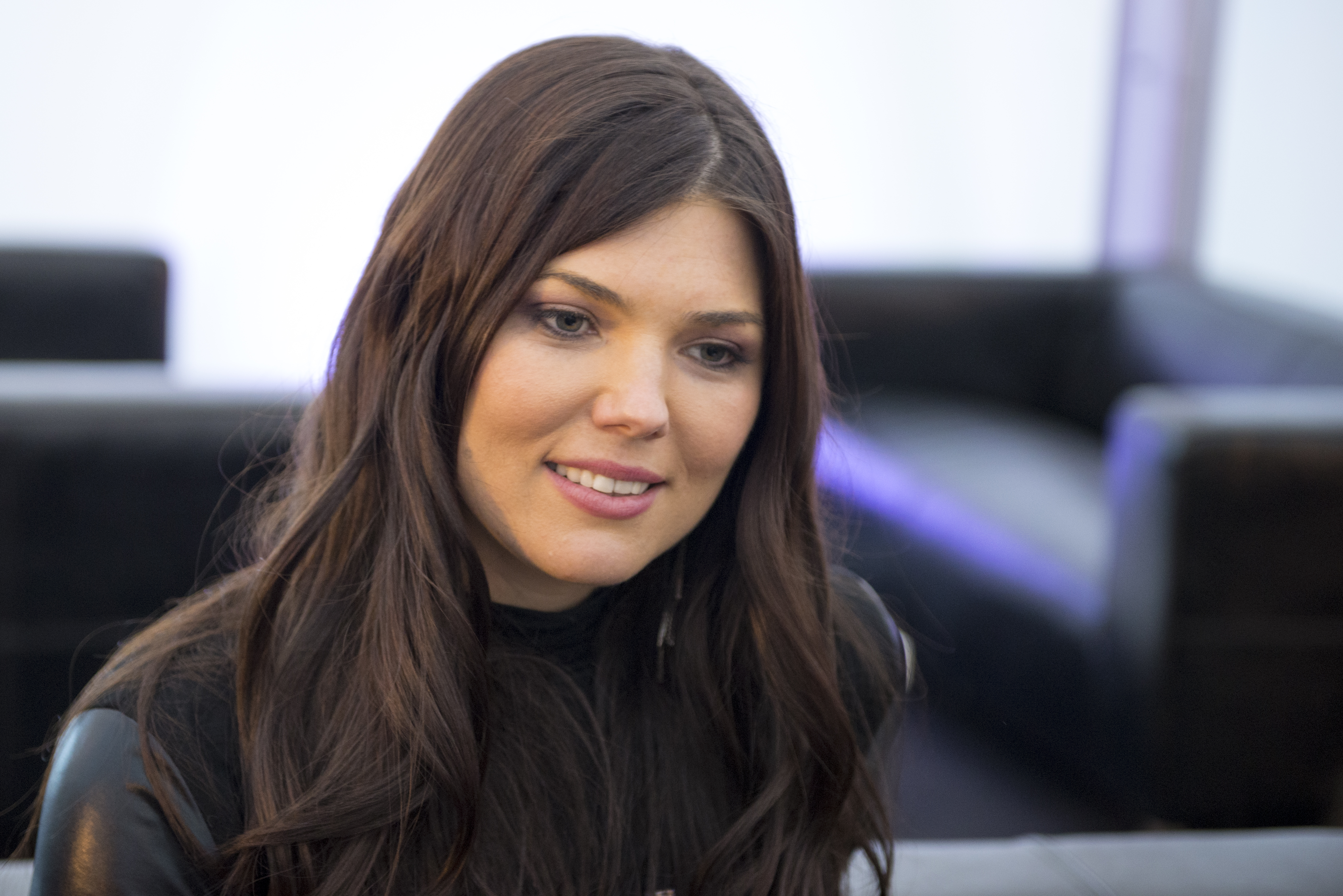 Paula Seling from Paula Seling and Ovidiu Cernăuțeanu at a Meet & Greet during the Eurovision Song Contest 2014 Copenhagen. (Help translate this text)